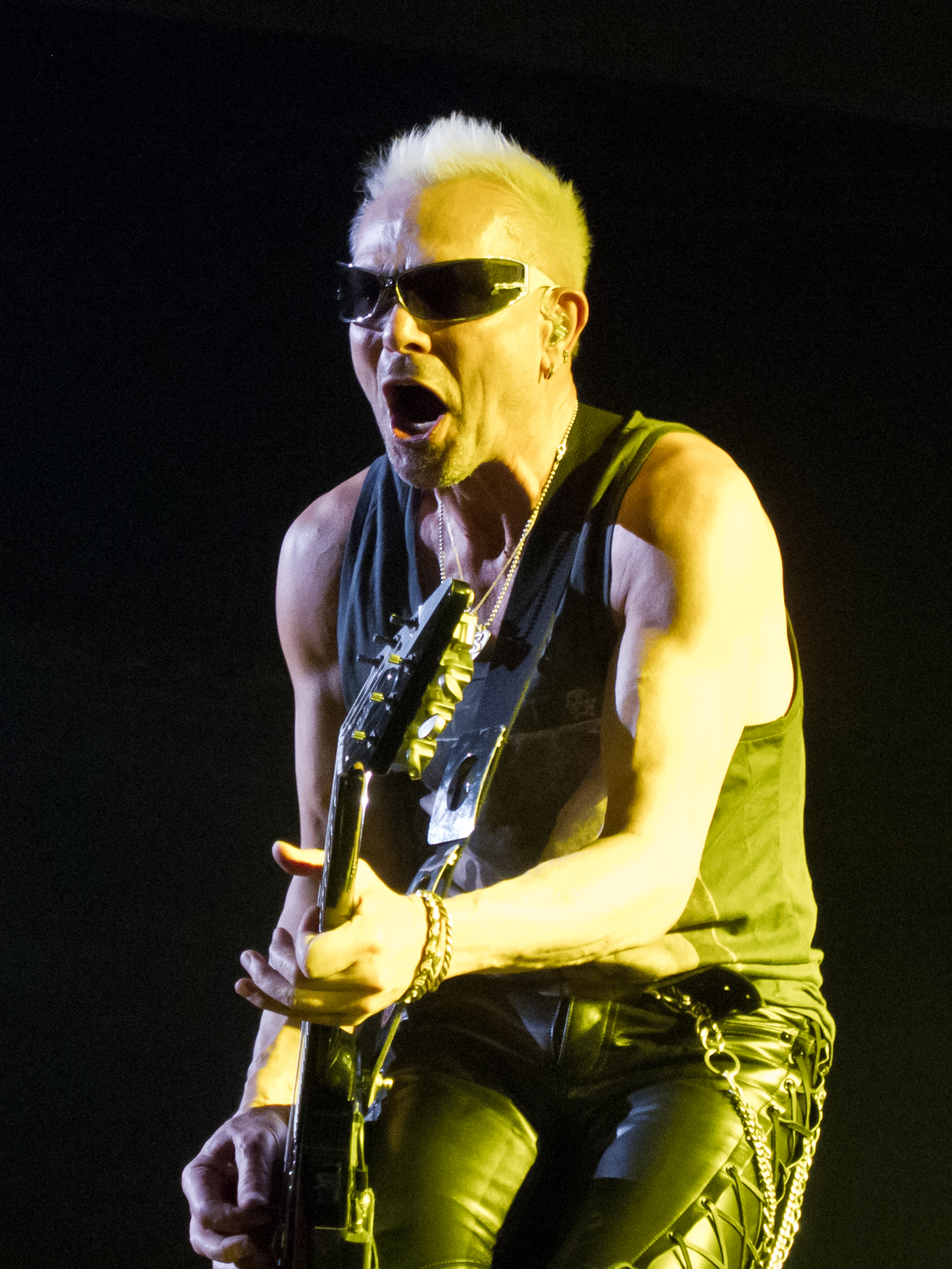 Rudolf Schenker, guitarist of German rock band Scorpions, in Madrid in 2014.